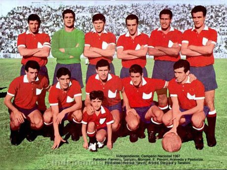 Independiente which won 1967 Argentina National Championship. Ferreiro, Santoro, Monges, Pavoni, Acevedo and Pastoriza; Bernao, Savoy, Artime, Diéguez and Tarabini.